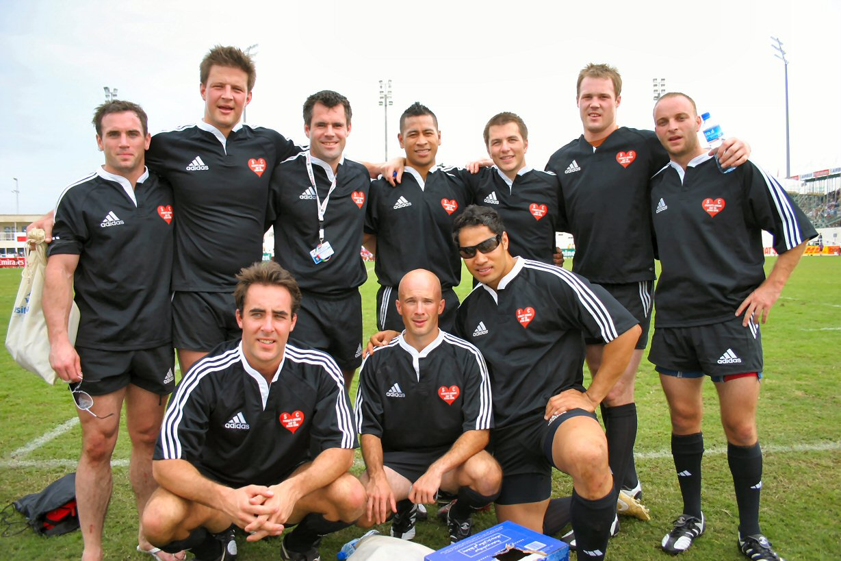 BHF Team at 2006 Dubay 7's rugby union tournament